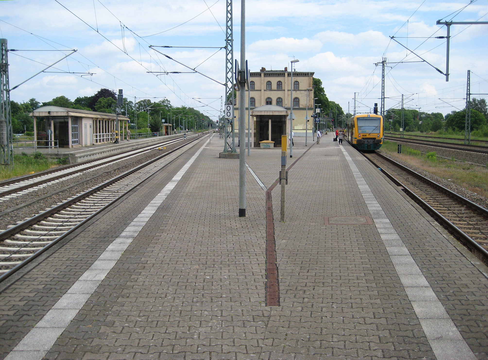 Hagenow Land triangle-platform